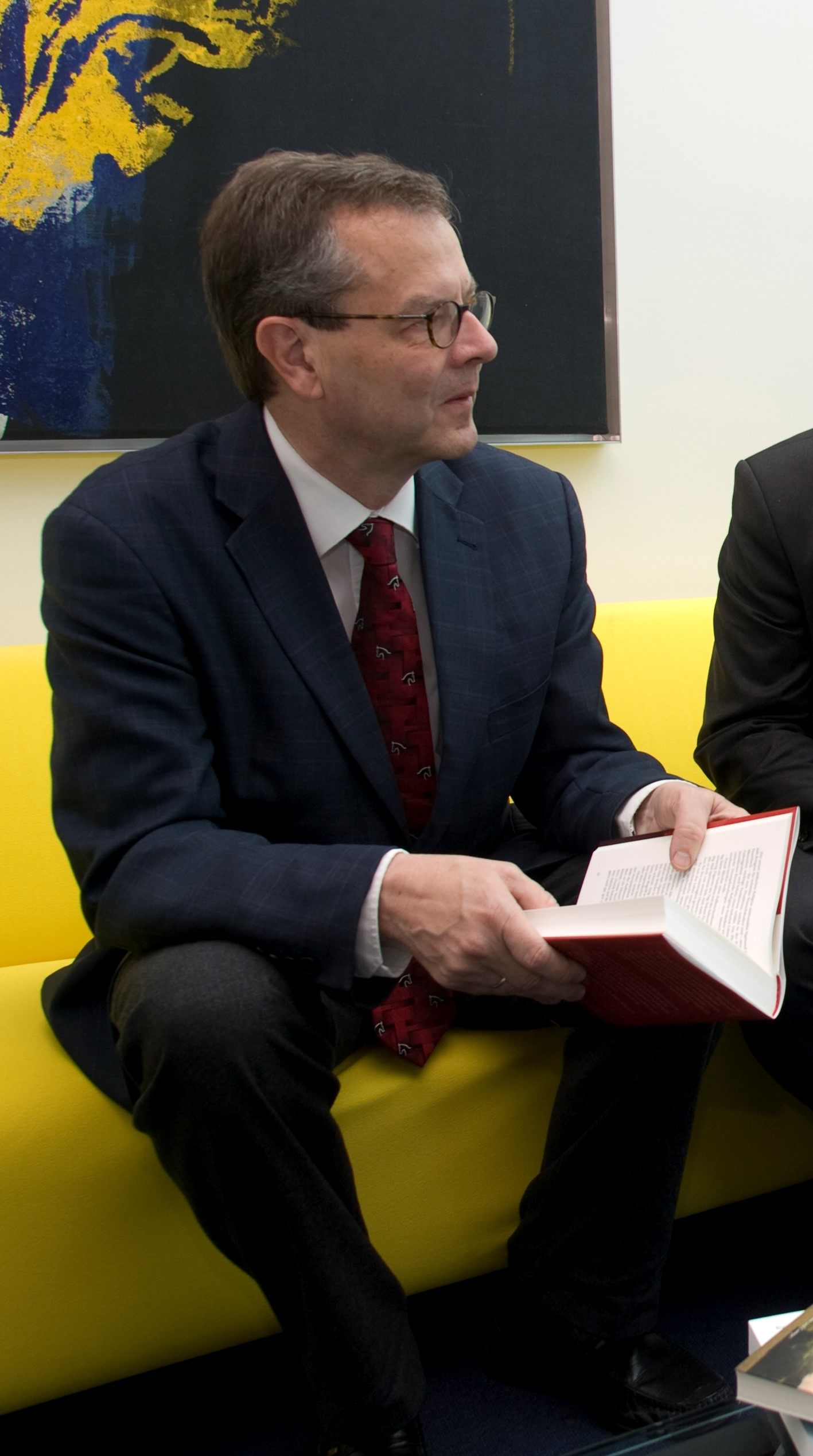 Detmar Doering